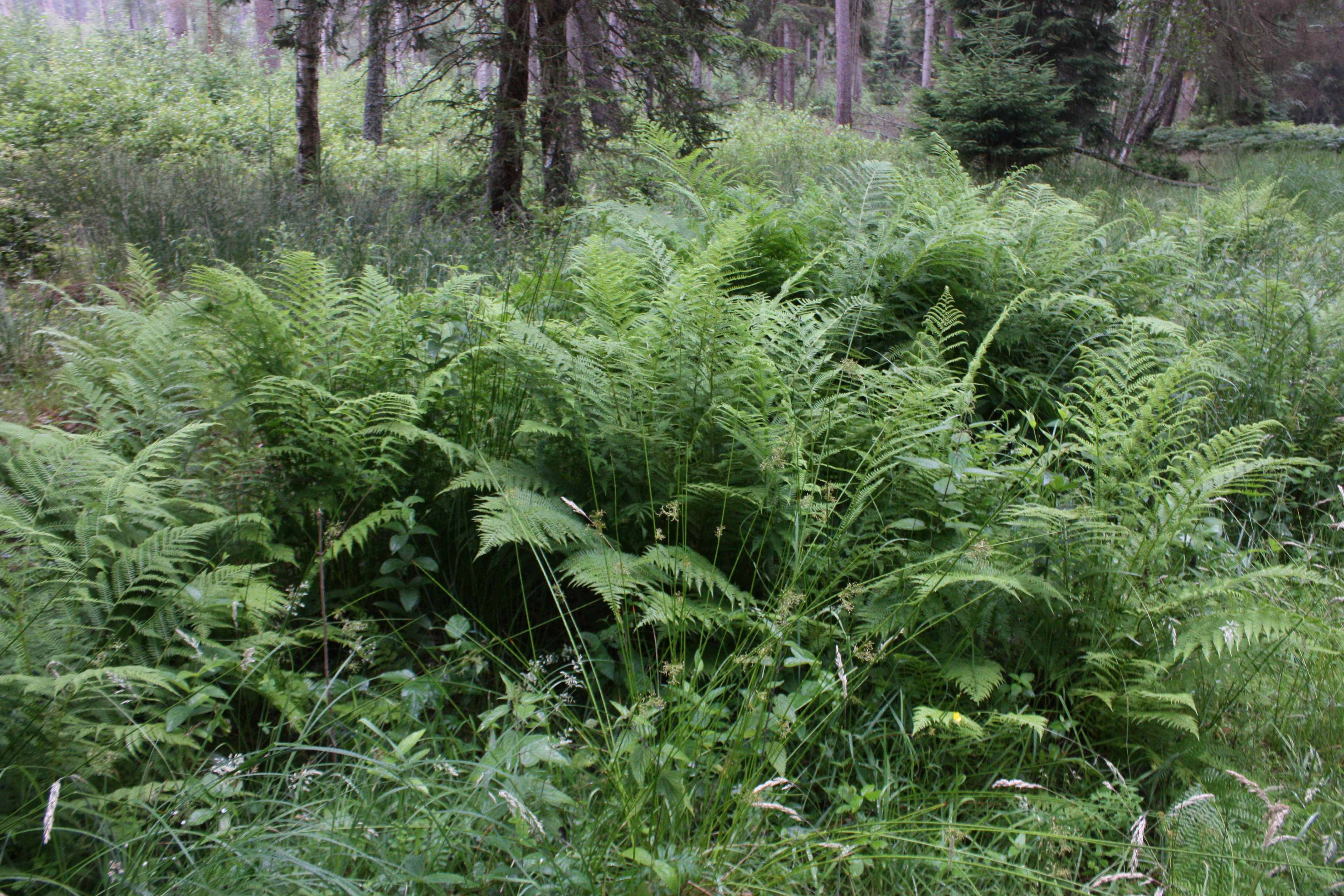 male fern, Dryopteris filix-mas, Poland, Gać (gmina Główczyce) near forest road, Słowiński Park Narodowy.